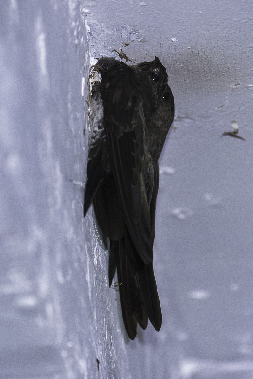 Cave Swiflet - Carita - West Java_MG_3591